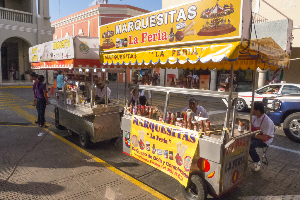 Marquesitas La Feria, in the Plaza de la Independencia, Mérida.